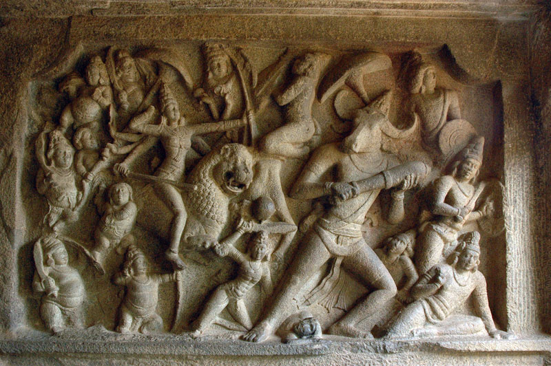 Mahishasura Mardini cave. Mahabalipuram, India